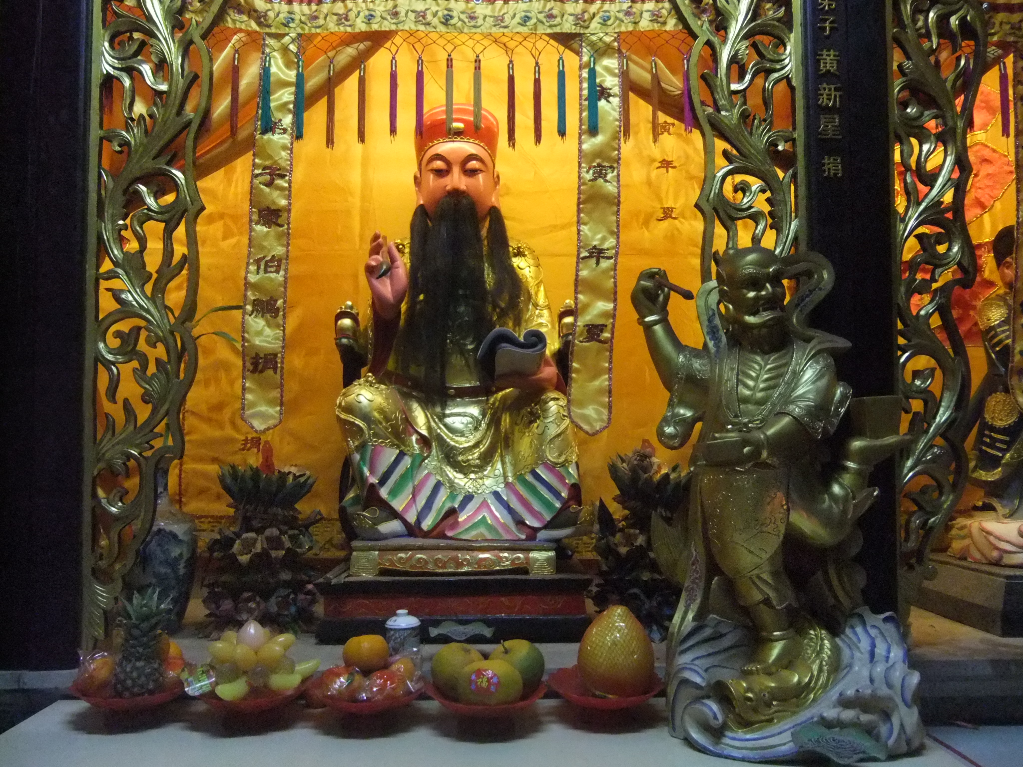 Statues, including Wenchang Wang(center) and Kui Xing (right) in Quanzhou's Quanshan Tudi Gong Gong.